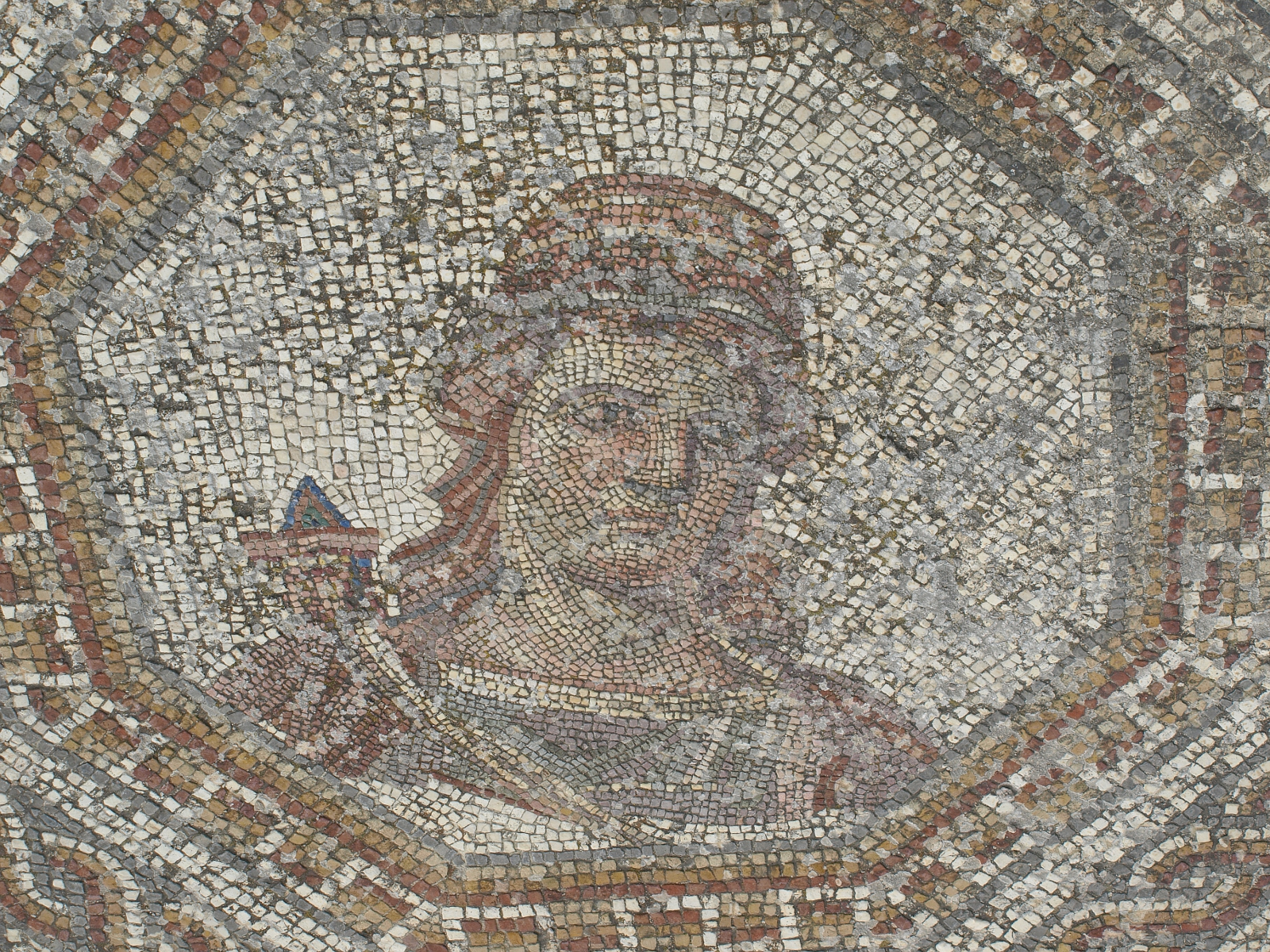 Detail of a mosaic at the Roman Villa at Bruñel (Quesada, Jaén, Spain)